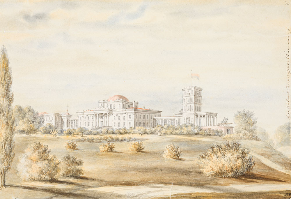 Homieĺ, Napaleon Orda